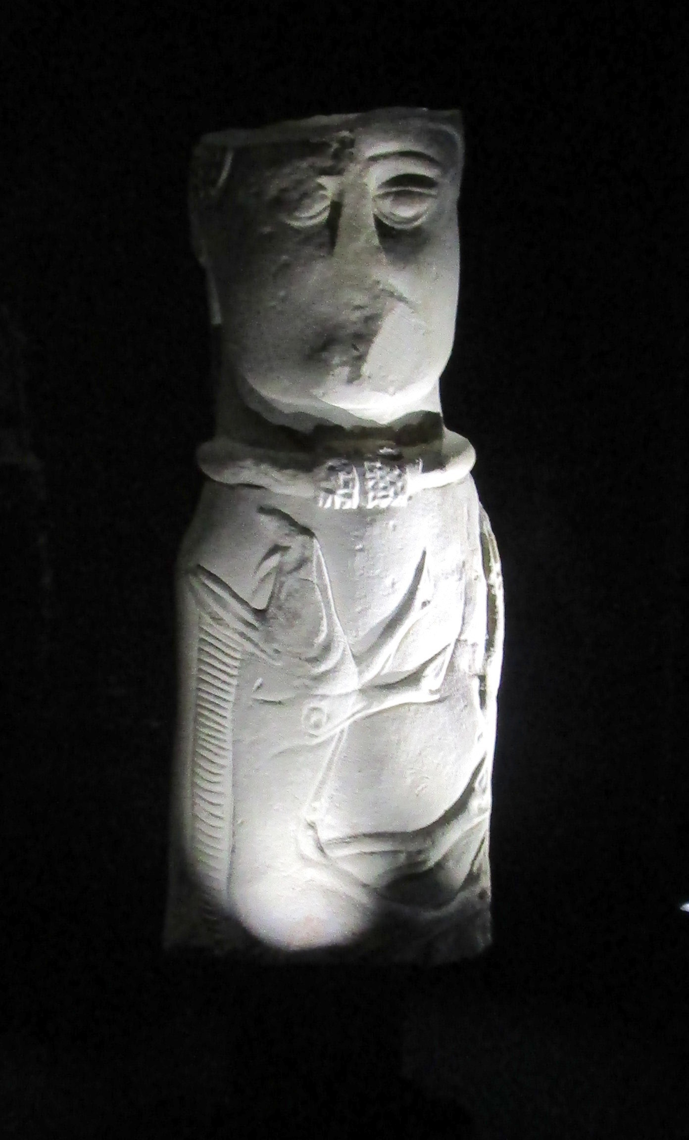 Statuette from Euffigneix depicting a torc-wearing Celtic god with a relief of a wild boar vertically over his torso.